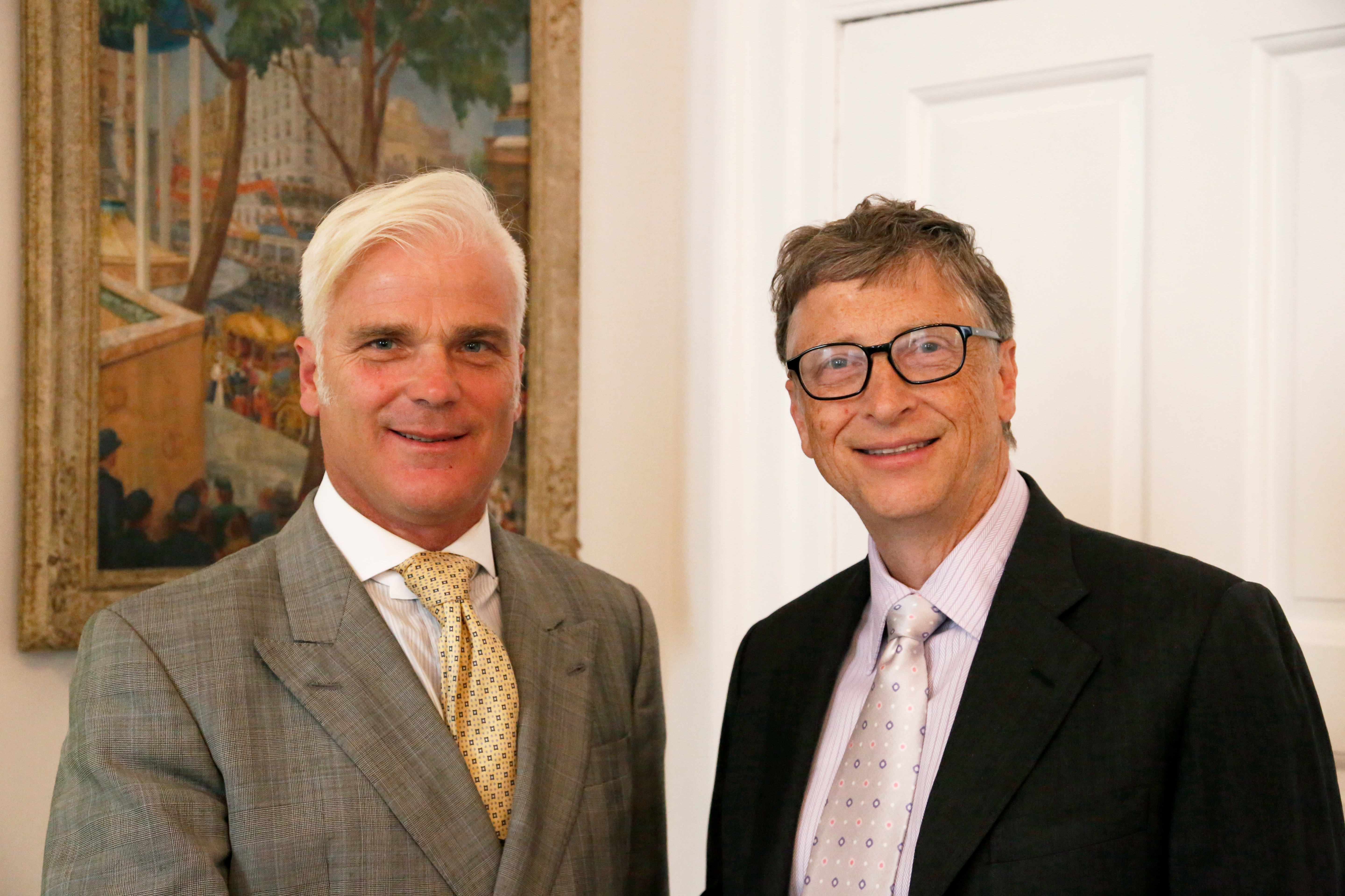 Development Minister Desmond Swayne meets with Microsoft founder Bill Gates - co-chair of the Bill & Melinda Gates Foundation - to discuss support for ending polio and increasing immunisations.